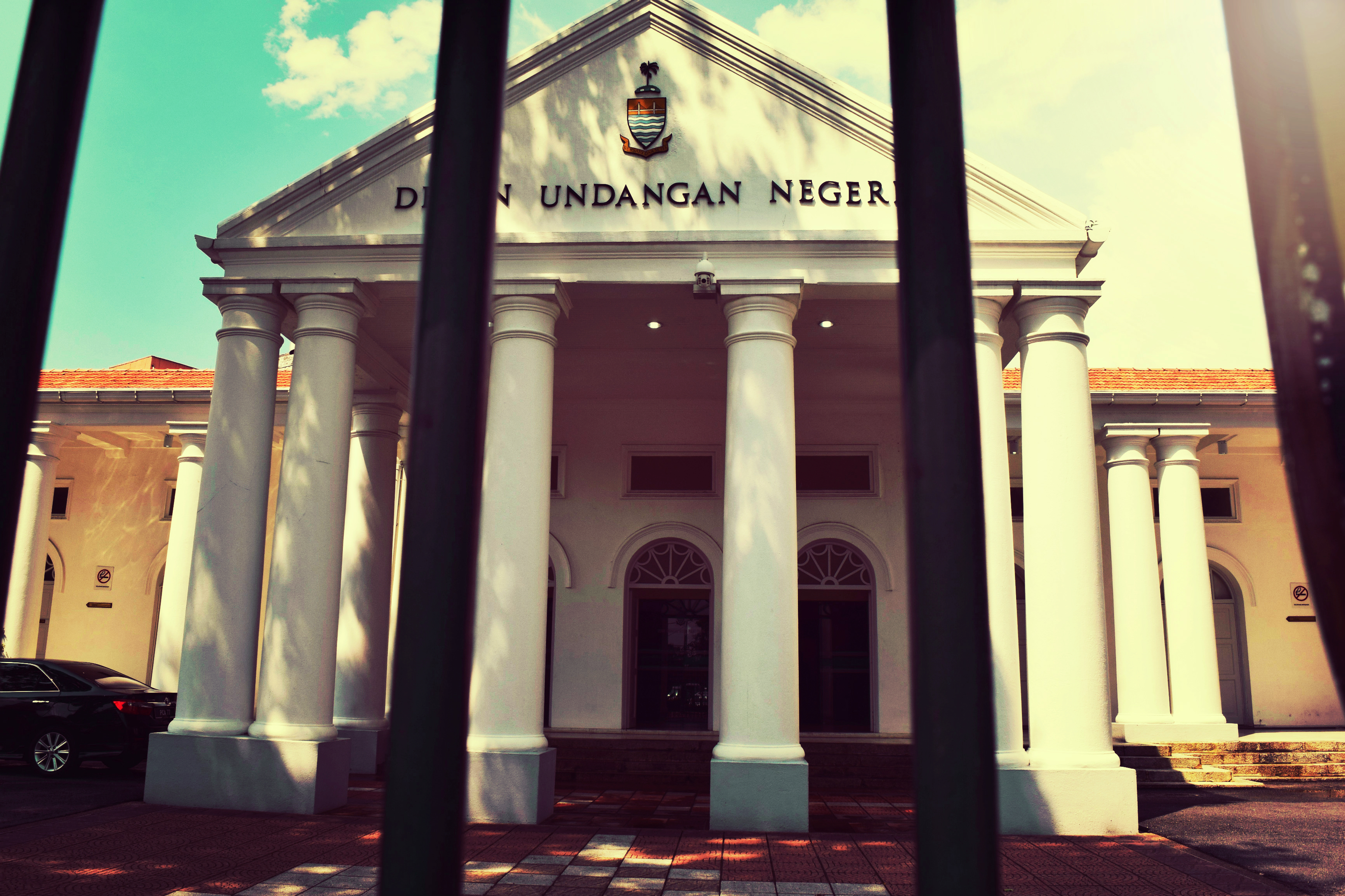 State Assembly Building